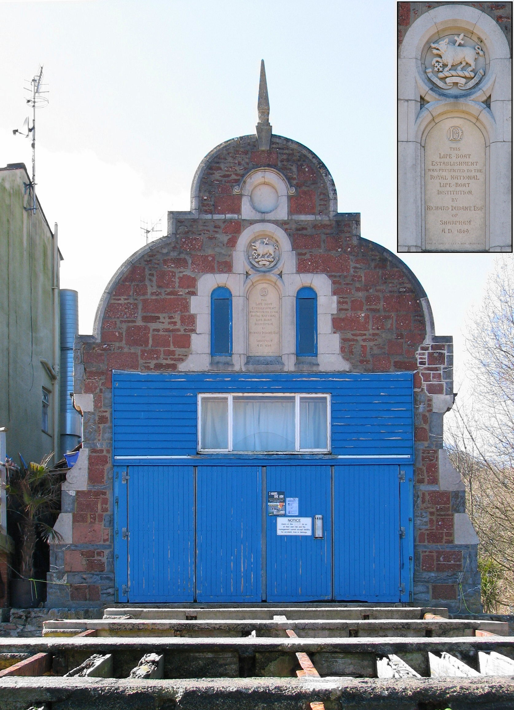 The front of the old lifeboat station at South Sands, Salcombe, Devon, England. The inset is a close-up of the inscription above the doors.